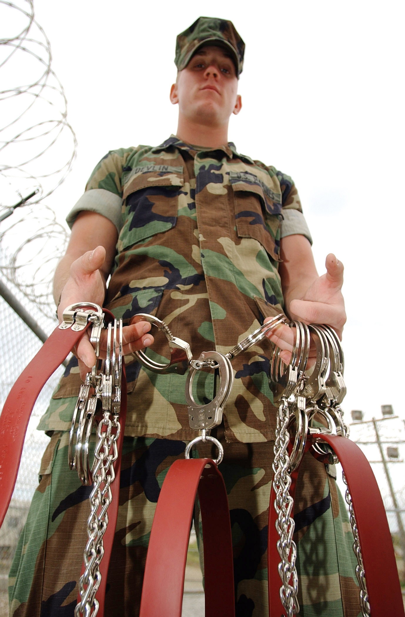 U.S. Military Police Lance Cpl. Robert Devlin, from 2nd Military Police battalion 2nd Force Service Support Group, displays restraints used for transporting detainees at Camp X-Ray, Guantanamo Bay, Cuba, January 10, 2002. Camp X-Ray will be one of the holding facilities for Taliban and Al Qaida detainees. REUTERS/Shane T. McCoy/U.S. Navy